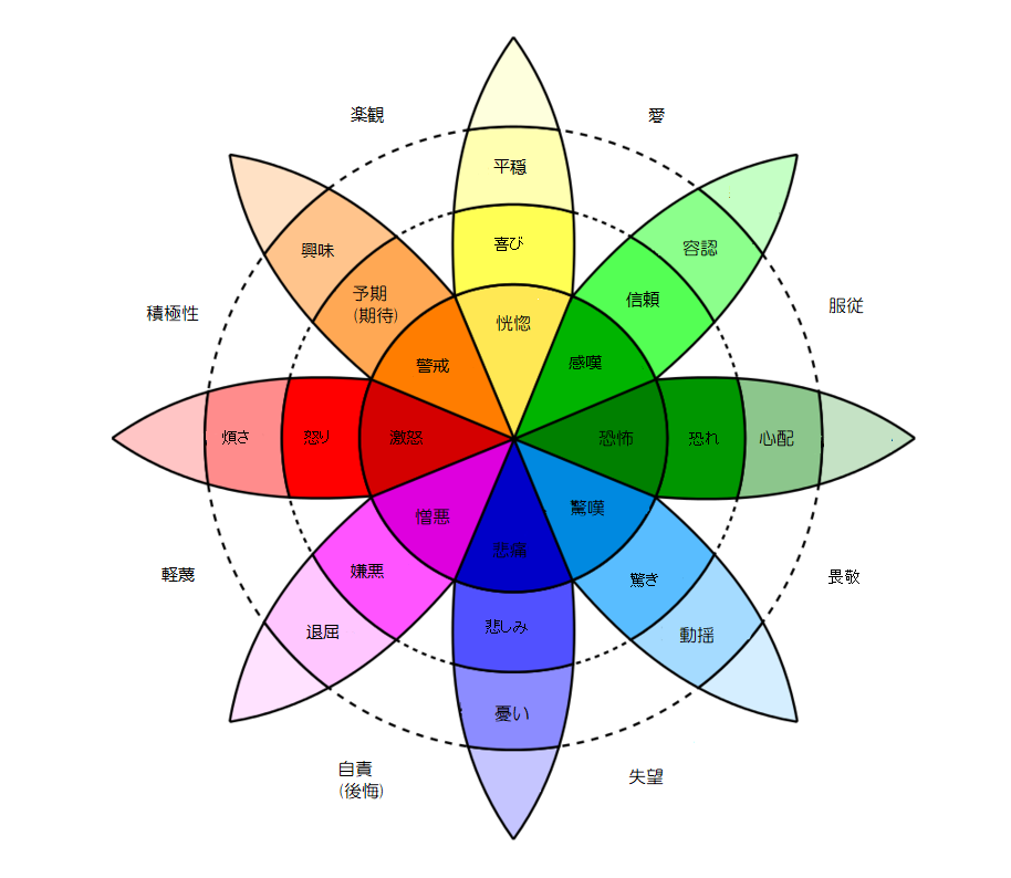 Plutchiks wheel of emotions translated to Japanese